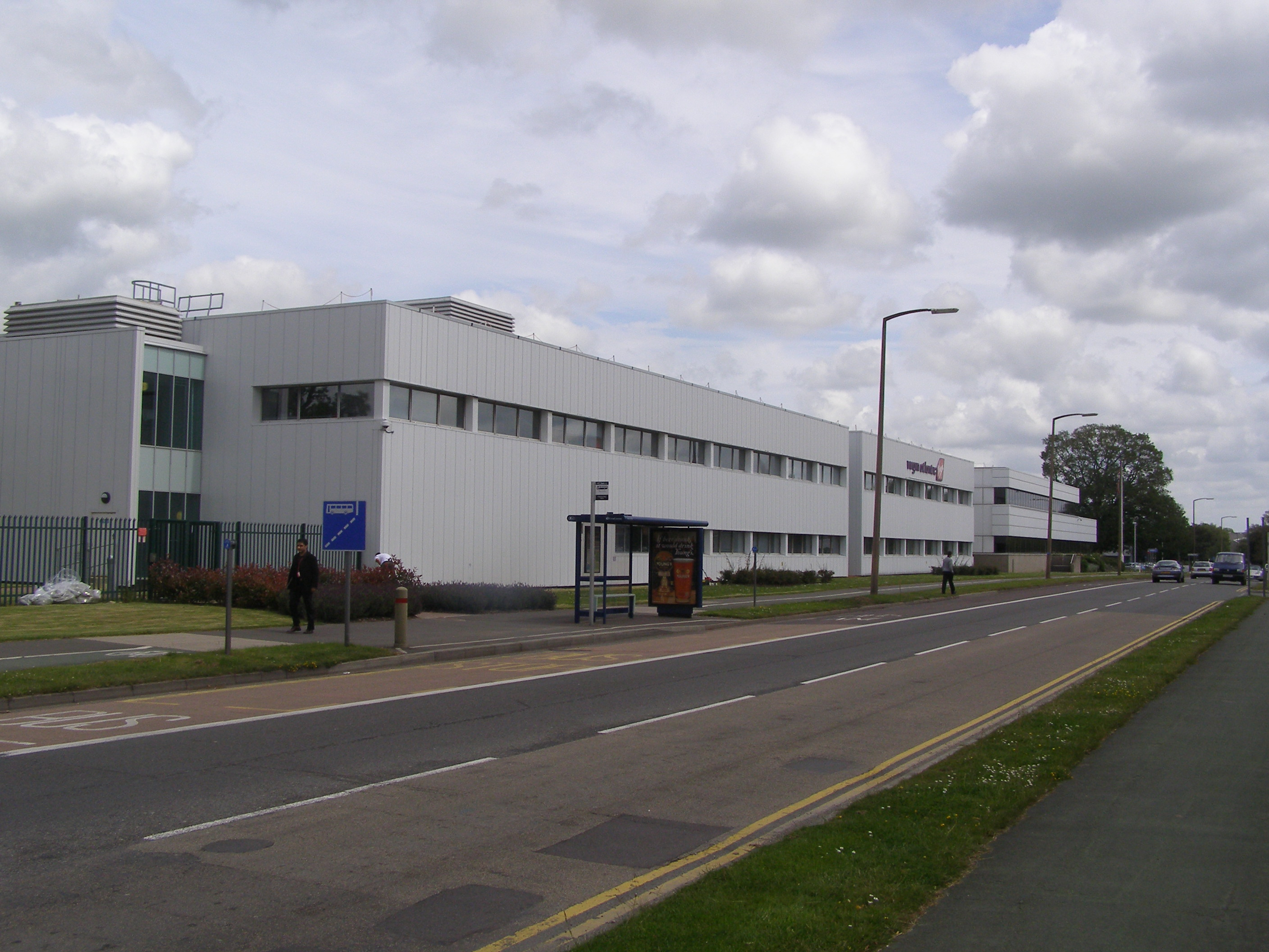 Virgin Atlantic "The Base" at Manor Royal, Crawley, West Sussex, England